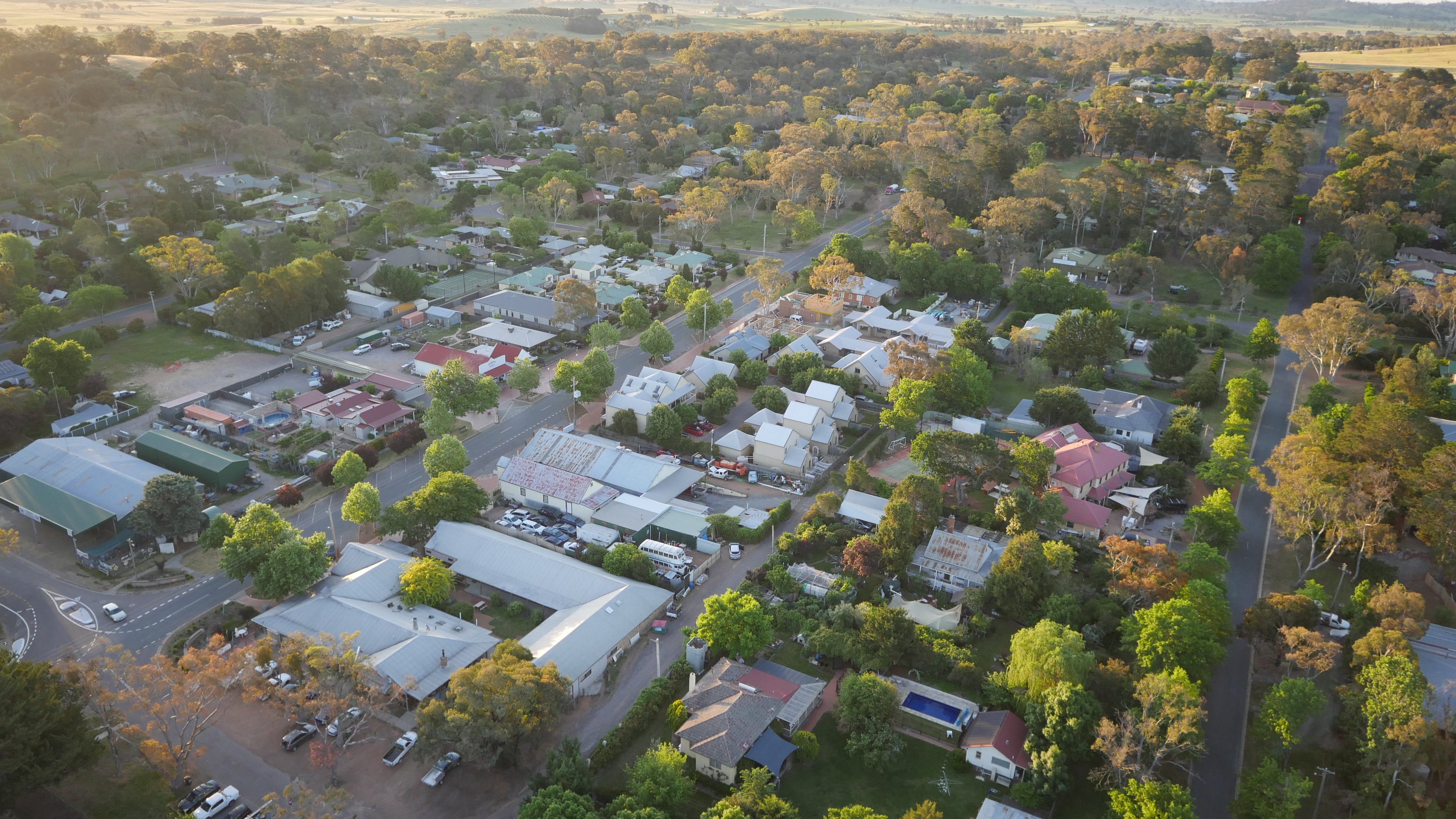 Aerial photograph of Hall, Australian Capital Territory.